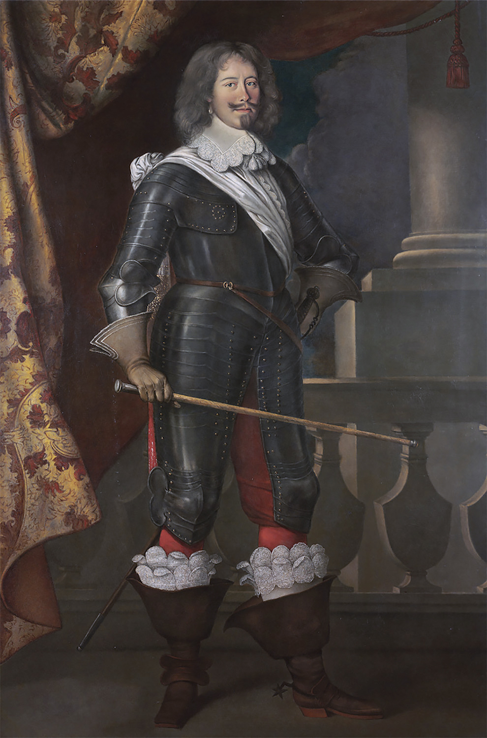 Jean-Arnaud de Peyrer, comte de Tréville (1598–1672) oil on canvas 1644